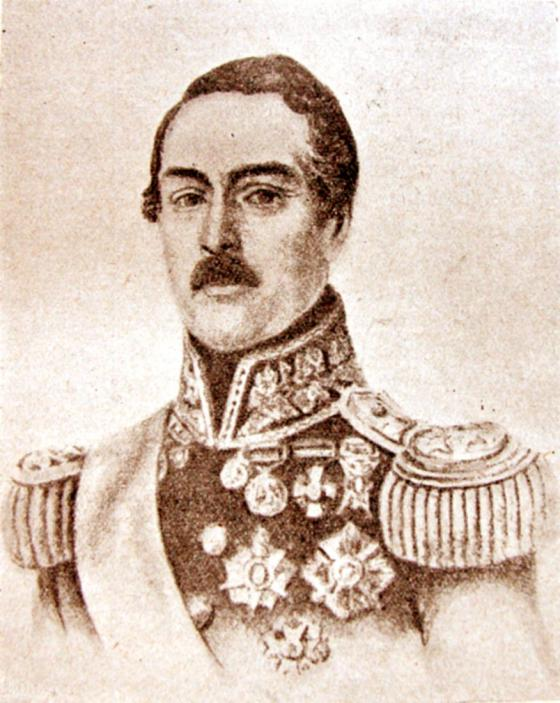 José Lúcio Travassos Valdez, first Baron and Count of Bonfim (1787-1862), Portuguese statesman and politician.